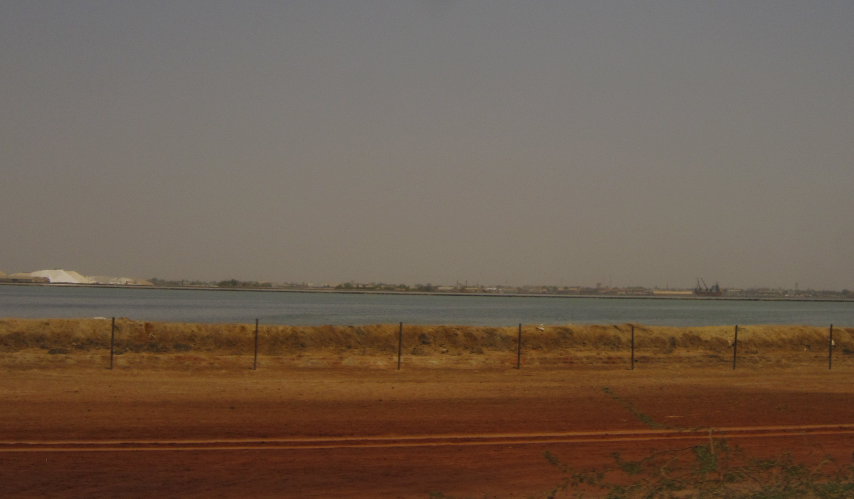 Kaolack from the N4. In front the Saloum River. On the left salt in the harbor.